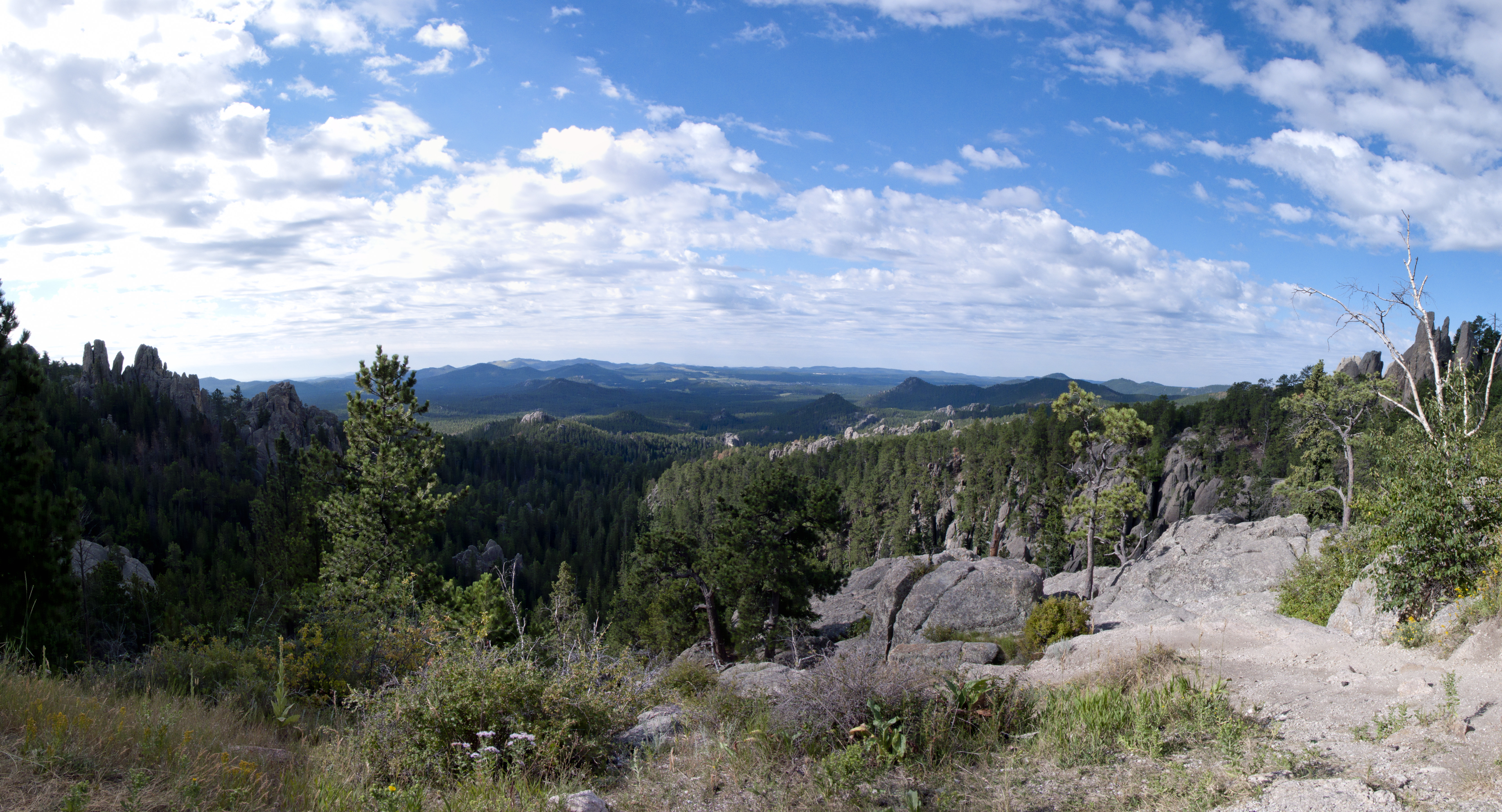 Overlook on South Dakota Highway 87, or Needles Highway. NOTE: This image is a panorama consisting of multiple frames that were merged in software. As a result, this image necessarily underwent some form of digital manipulation. These manipulations may include blending, blurring, cloning, and color and perspective adjustments. As a result of these adjustments, the image content may be slightly different than reality at the points where multiple images were combined. This manipulation is often required due to lens, perspective, and parallax distortions.